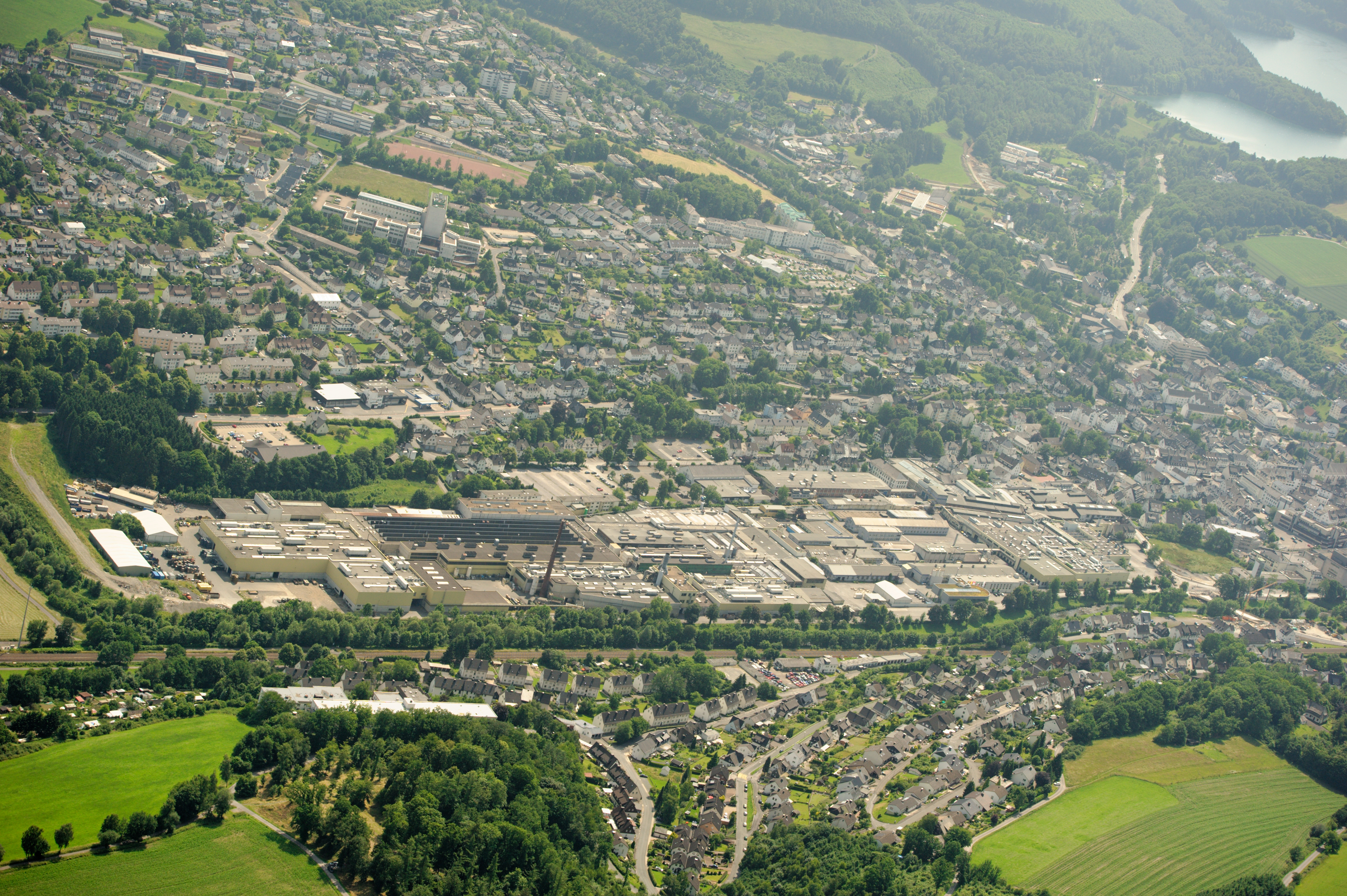 Fotoflug Sauerland-Ost – Meschede, Honselwerke The making of this document was supported by the Community-Budget of Wikimedia Germany.